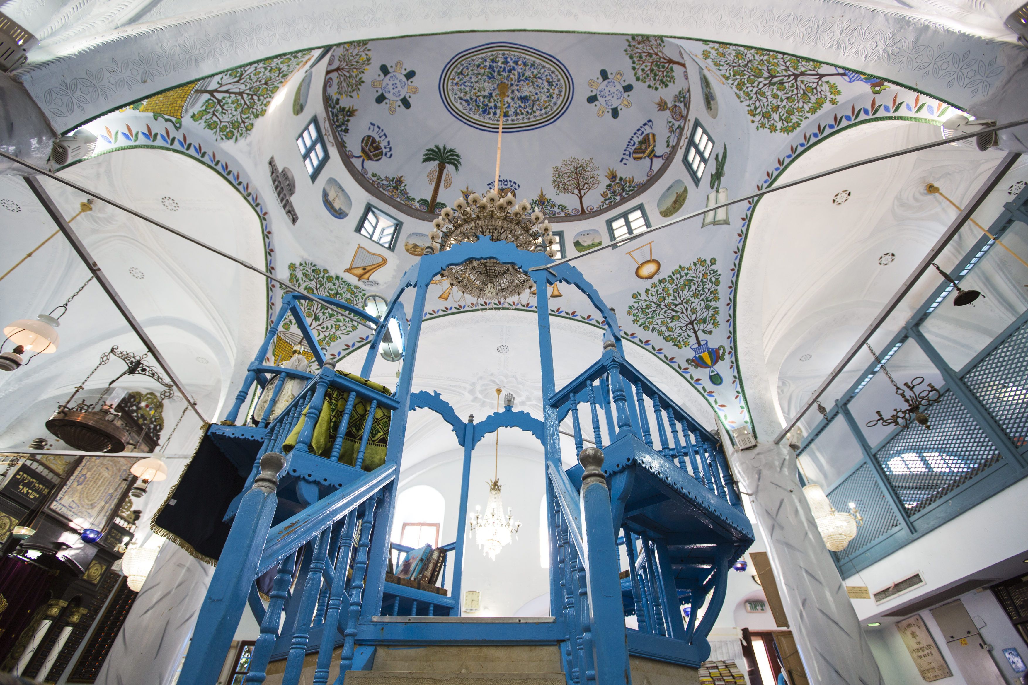 The Abuhav Synagogue in Safed, Galilee (Israel). Photo by Itamar Grinberg.